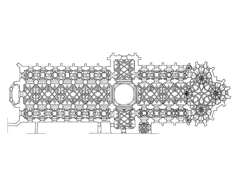 Ground plan of Monastery Church of the Assumption of Virgin Mary, St Wolfgang and St Benedict in Kladruby u Stříbra by Jan Santini Aichel